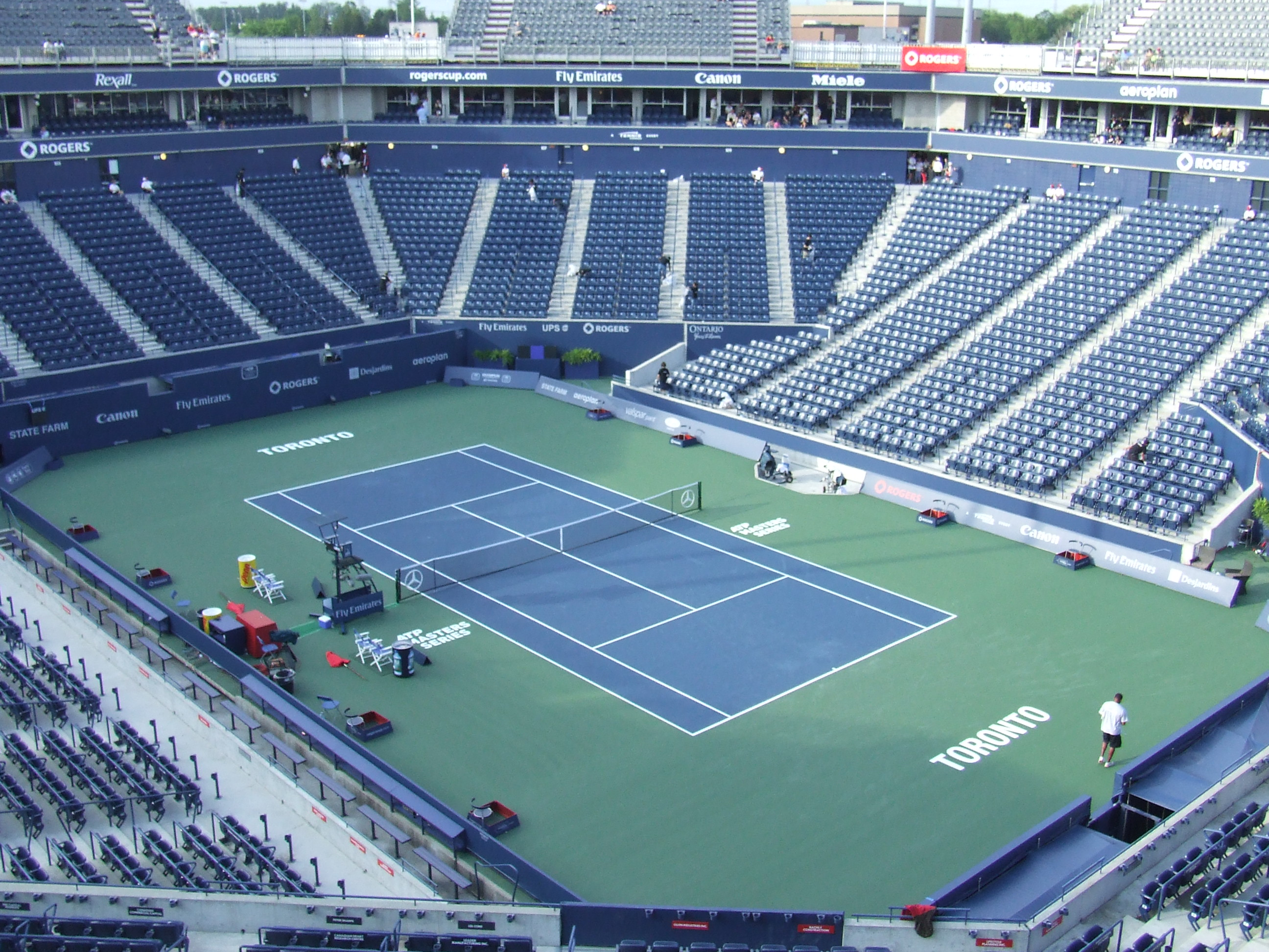 Rexall Centre York University Toronto (until 2014); Aviva Centre since 2015